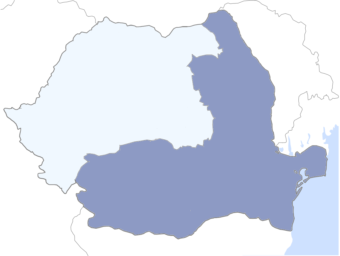 Romania looked something like this between the years 1878-1913. Source on Romania_counties_blank_big.png